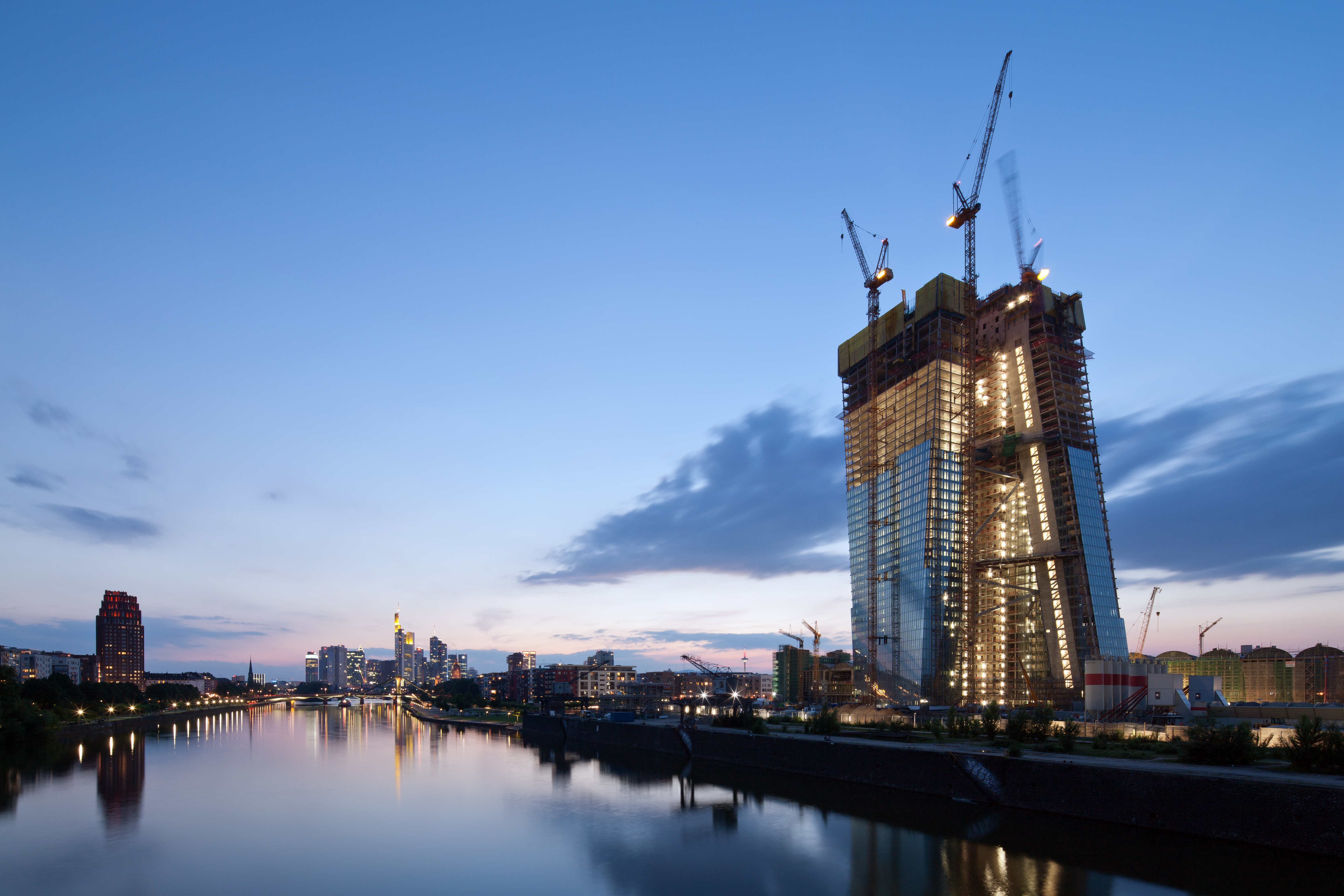 Frankfurt on the Main: European Central Bank Headquarters with Frankfurt's skyline in the background as seen from the southeast